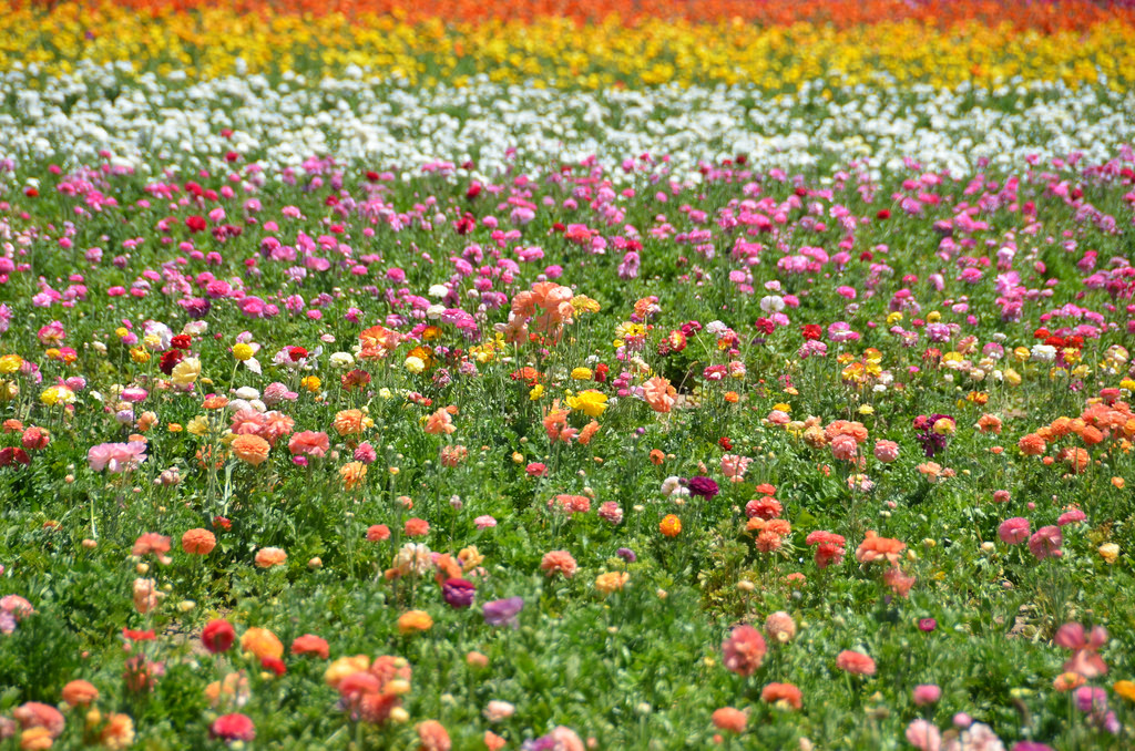 A picture of a field of flowers found at The Flower Fields, located in Southern California.